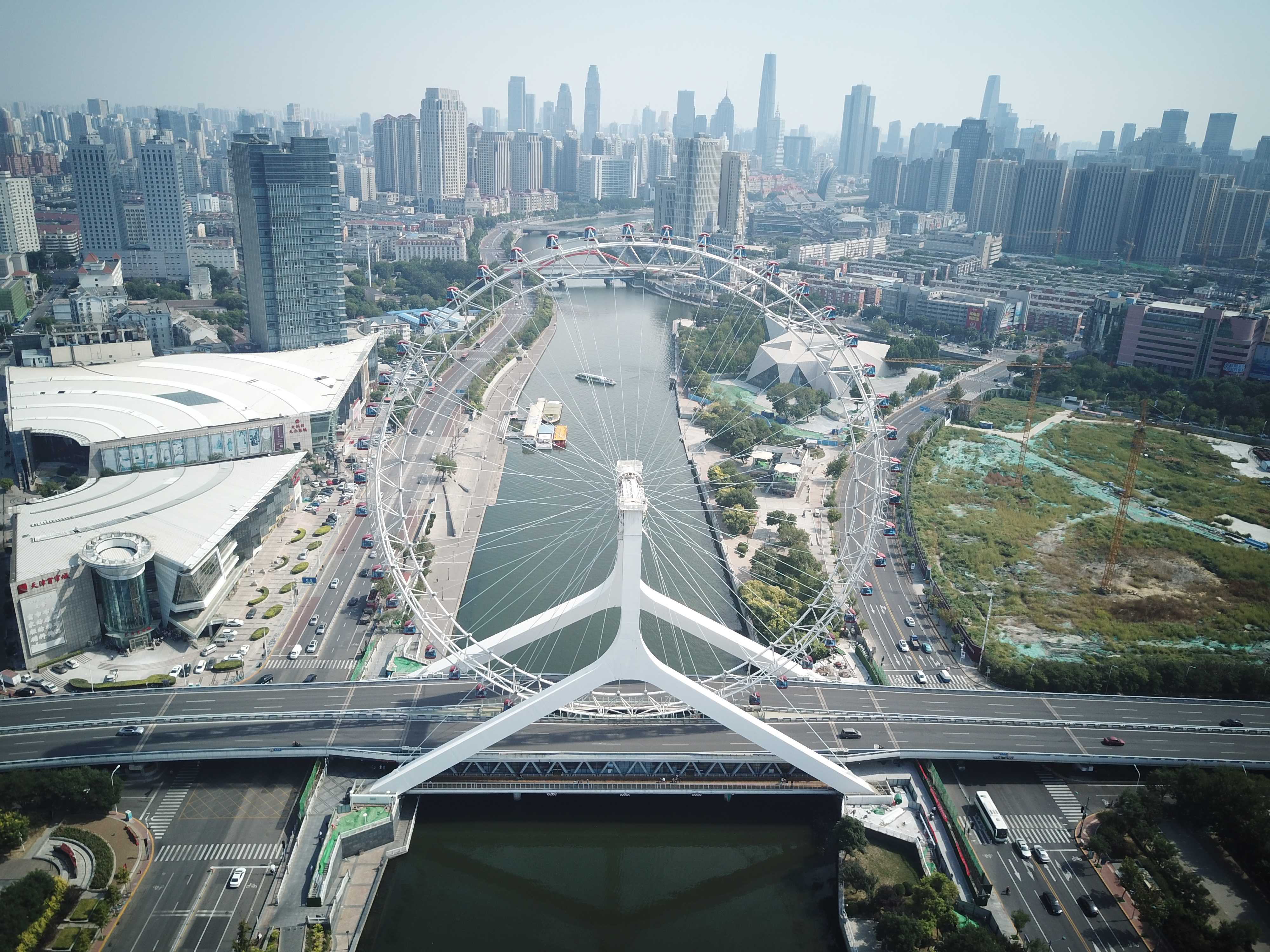 天津之眼航拍